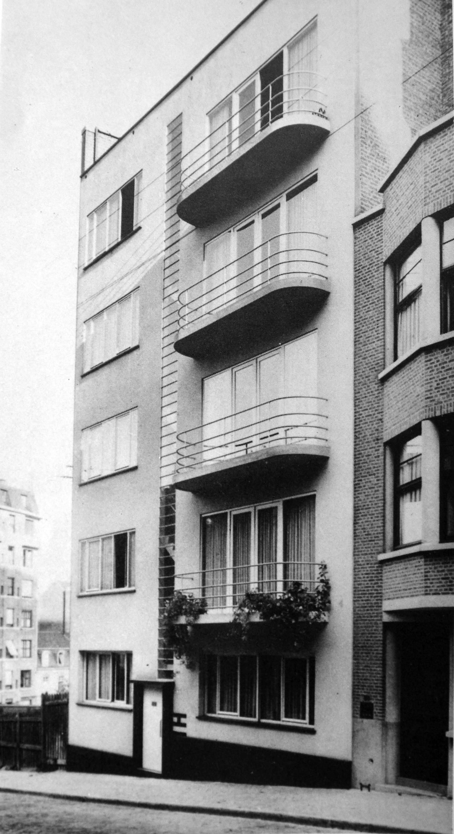 Block of 5 flats, rue de l'Ermitage in Ixelles, Brussels, 1935